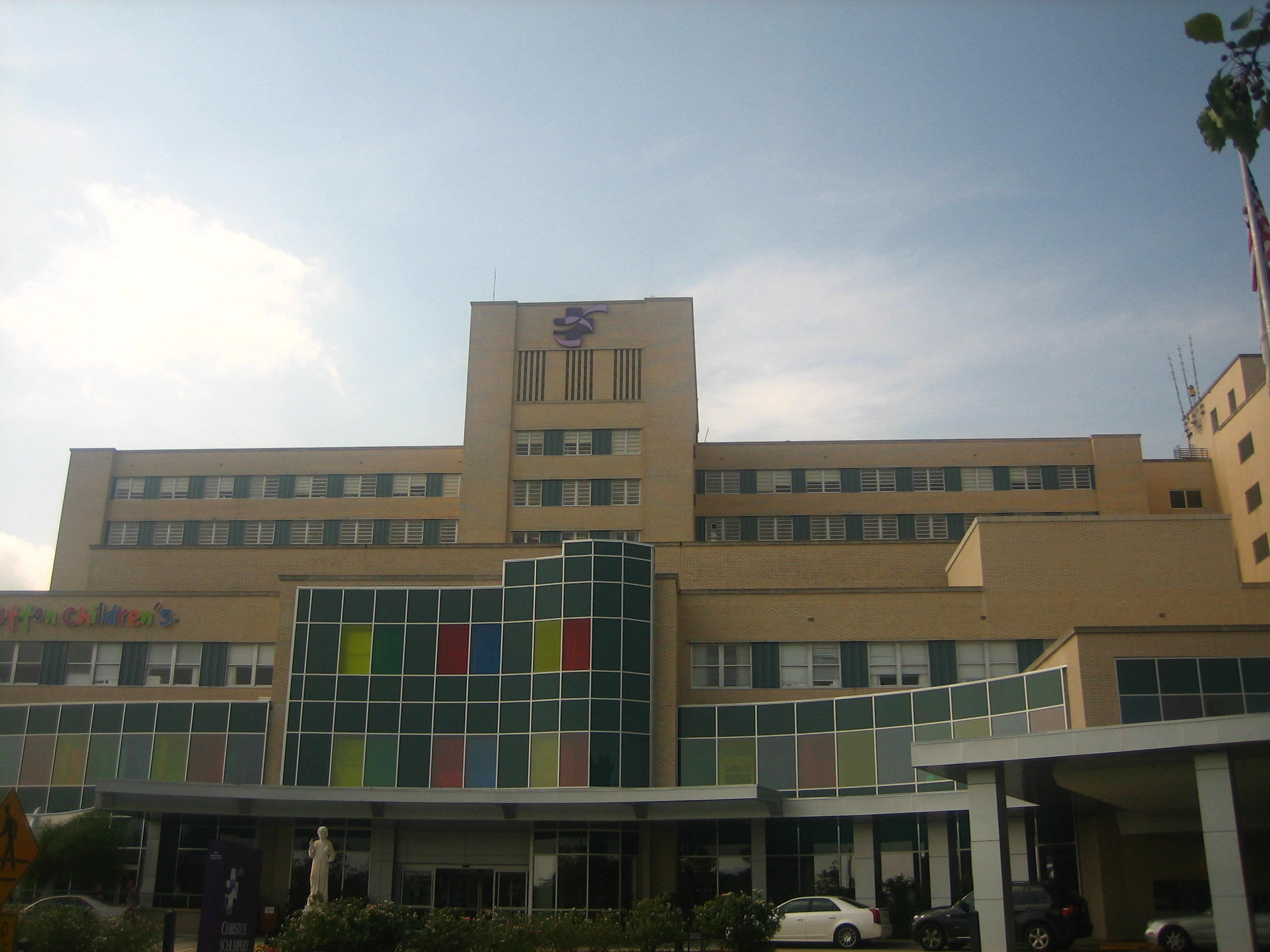 Schumpert Hospital, Shreveport. I took photo on Aug. 9, 2008.Billy Hathorn (talk) 01:46, 23 August 2008 (UTC)